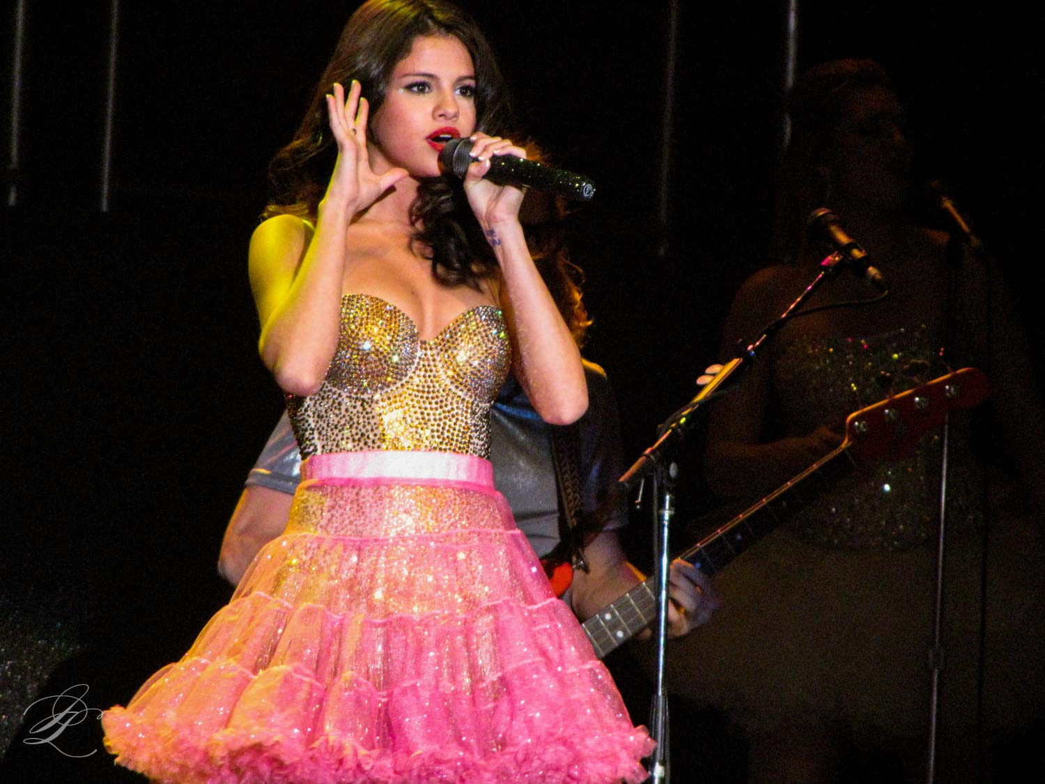 Selena Gomez performs at the Colorado State Fair in Pueblo, CO on September 3, 2011.